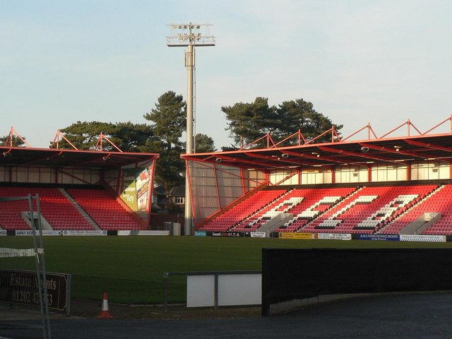 King's Park: AFC Bournemouth The 644340, the home of AFC Bournemouth - detail of the seating on the east stand, which is catching the late afternoon sunlight.